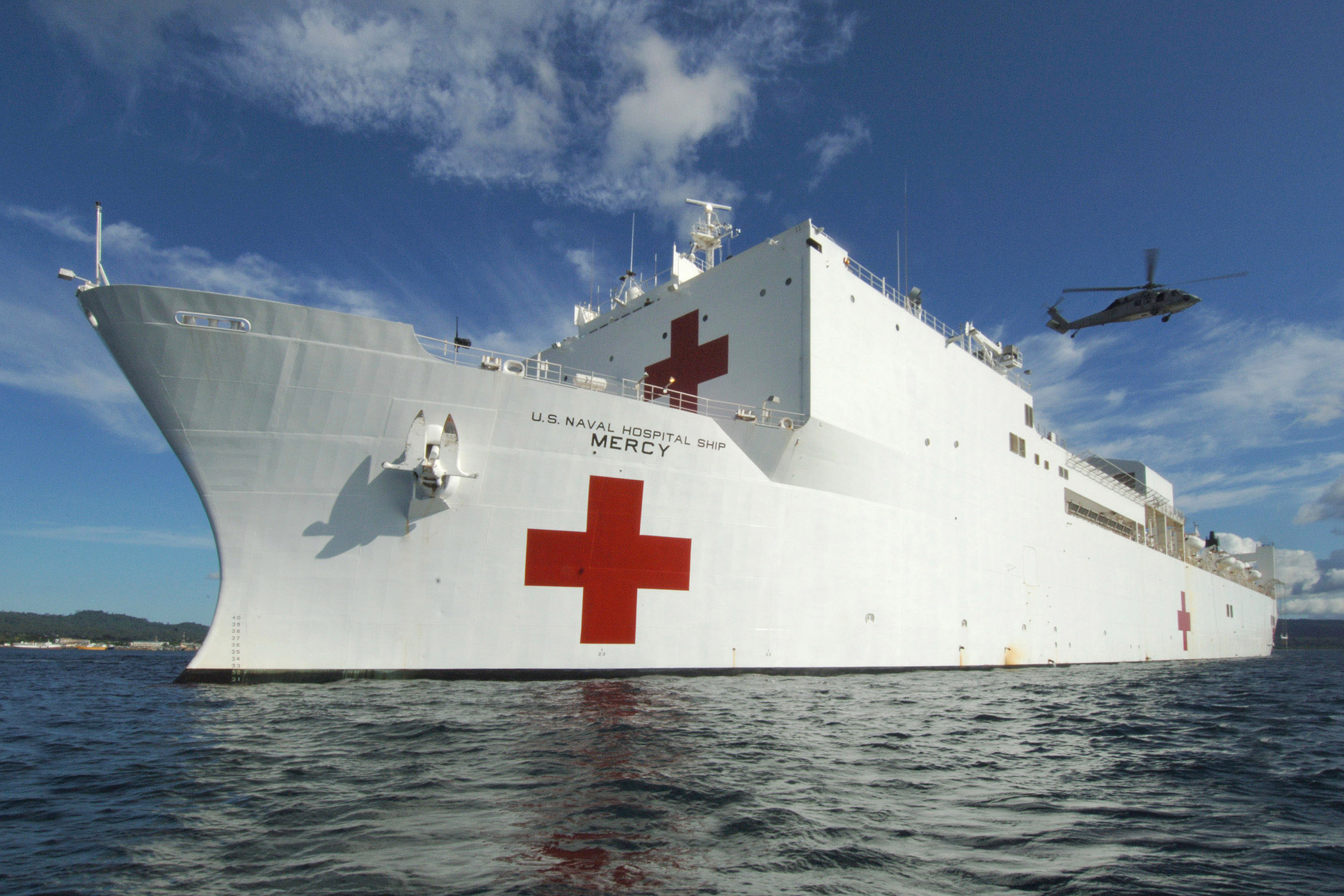 Jolo, Philippines (June 7, 2006) - An MH-60S Seahawk helicopter from the Guam-based Helicopter Sea Combat Squadron two Five (HSC-25), Island Knights, departs the U.S. Military Sealift Command (MSC) Hospital ship USNS Mercy (T-AH 19) to pick up patients from the Sulu Provincial Hospital. The patients will be shuttled from the city of Jolo to the hospital ship Mercy for medical treatment during the ship's visit to the Sulu province of the Philippines. Mercy's medical staff will provide a multitude of medical, dental and veterinary care for the people who live in this region, together with their Filipino counterparts, both at local city medical centers and on the ship itself. Mercy's stop in Jolo is one of many, during its humanitarian deployment to South and Southeast Asia, and the Pacific Islands. Mercy is able to rapidly respond to a range of situations on short notice and is capable of supporting medical and humanitarian assistance needs with special medical equipment and a multi-specialized medical team, providing a range of services ashore as well as aboard the ship. The medical staff is augmented with an assistance crew, many of whom are part of nongovernmental organizations that have significant medical capabilities.U.S. Navy photo by Chief Photographer's Mate Edward G. Martens (RELEASED)